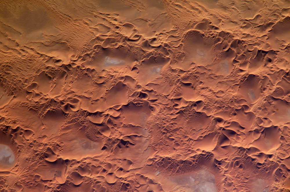 Astronaut photo of the Issaouane Erg (Sahara Desert), Algeria. ISS Crew Earth Observations: ISS010-E-13539 Identification Mission ISS010 (Expedition 10) Roll E Frame 13539 Country or Geographic Name ALGERIA Features ISSAOUANE SAND SEA, STAR DUNES Center Point Latitude 26.8° N Center Point Longitude 7.3° E Camera Camera Tilt High Oblique Camera Focal Length 800 mm Camera Kodak DCS760C Electronic Still Camera Film 3060 x 2036 pixel CCD, RGBG array. Quality Percentage of Cloud Cover 0-10% Nadir What is Nadir? Date 2005-01-16 Time 14:25:12 Nadir Point Latitude 36.7° N Nadir Point Longitude 19.4° E Nadir to Photo Center Direction Southwest Sun Azimuth 230° Spacecraft Altitude 188 nautical miles (348 km) Sun Elevation Angle 14° Orbit Number 3185 Original image caption The Issaouane Erg (sand sea) is located in eastern Algeria between the Tinrhert Plateau to the north and the Fadnoun Plateau to the south. Ergs are vast areas of moving sand with little to no vegetation cover. Considered to be part of the Sahara Desert, the Issaouane Erg covers an area of approximately 38,000 km2. These complex dunes form the active southwestern border of the sand sea. The most common landforms in the image are star dunes and barchan (or crescent) dunes. Small linear dunes appear at top left. Star dunes are formed when sand is transported from variable wind directions, whereas barchan dunes form in a single dominant wind regime. The superimposition of two dune types suggests that wind regimes have changed through time. The active nature of this portion of the Erg is well illustrated by this image—smaller dunes form and migrate along the flanks of the larger dunes and sand ridges. Occasional precipitation fills basins formed by the dunes; as the water evaporates, salt deposits are left behind which appear as bluish-white areas.